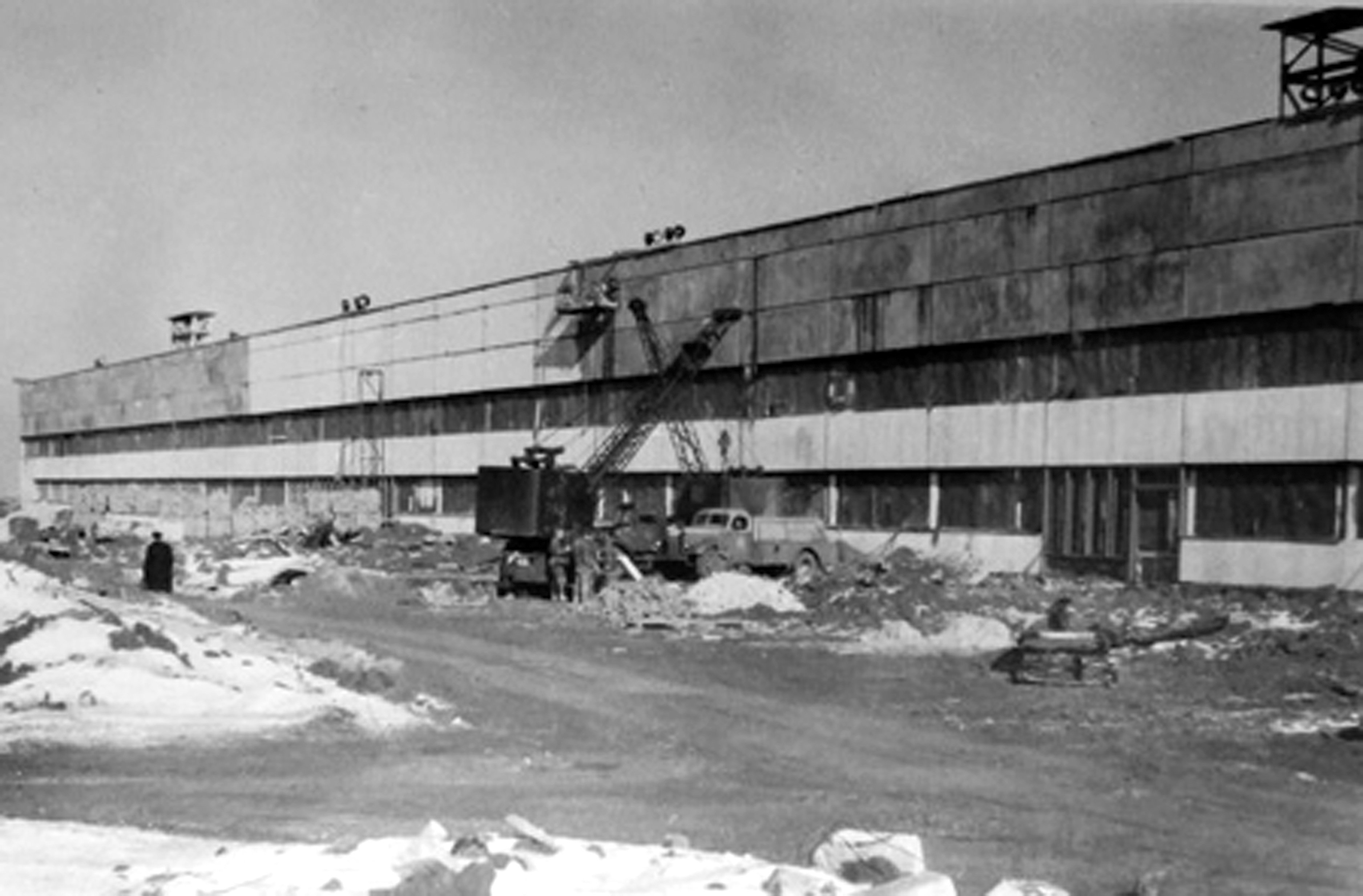 The facade of the main building in 1961_Toriy